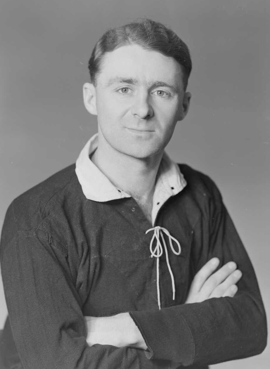 Ian Botting